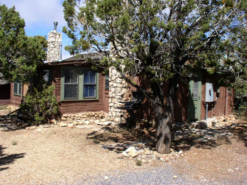 Desert View Caretaker's Residence in Grand Canyon National Park, Arizona, USA